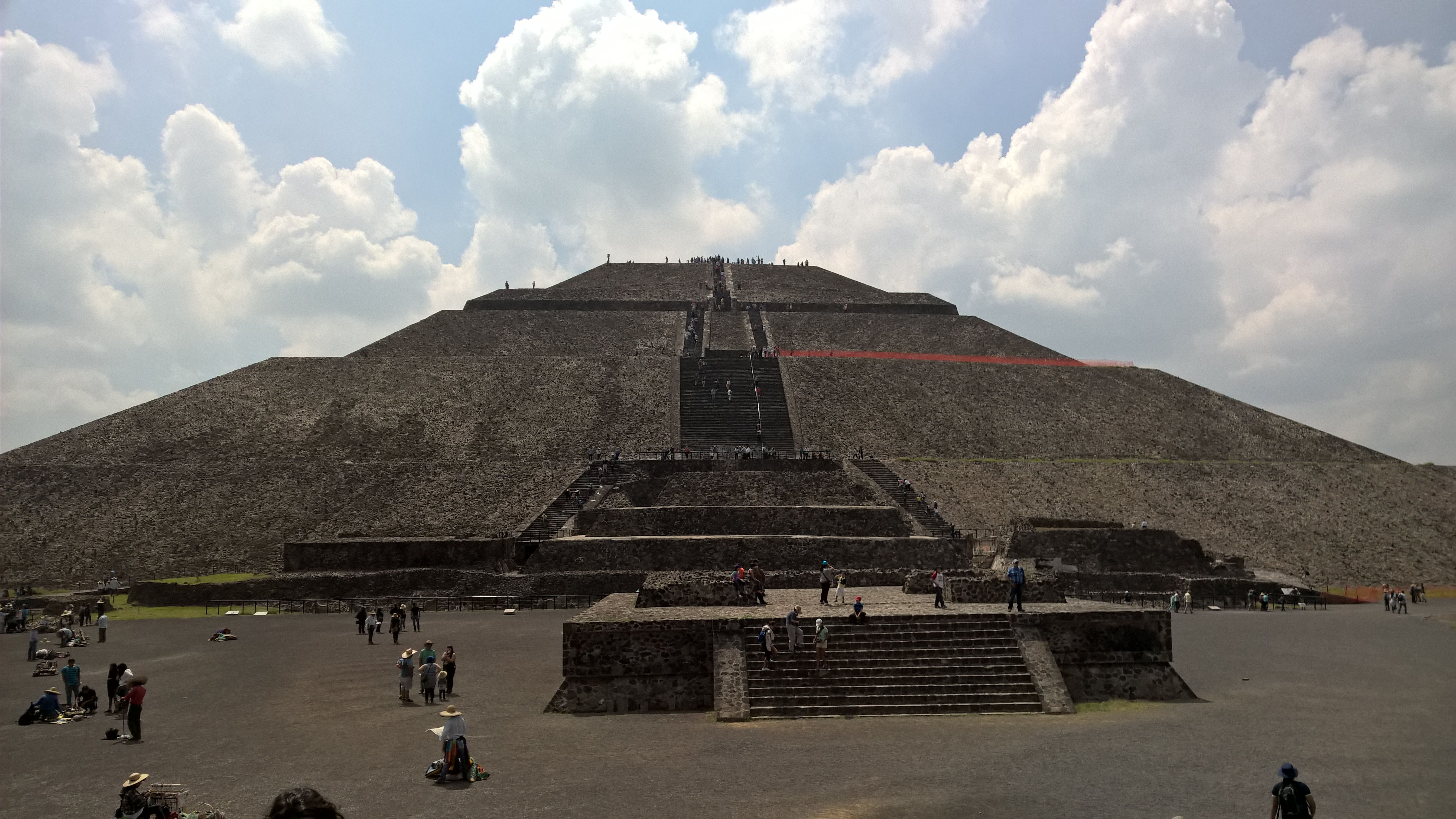 Pyramid of the Sun